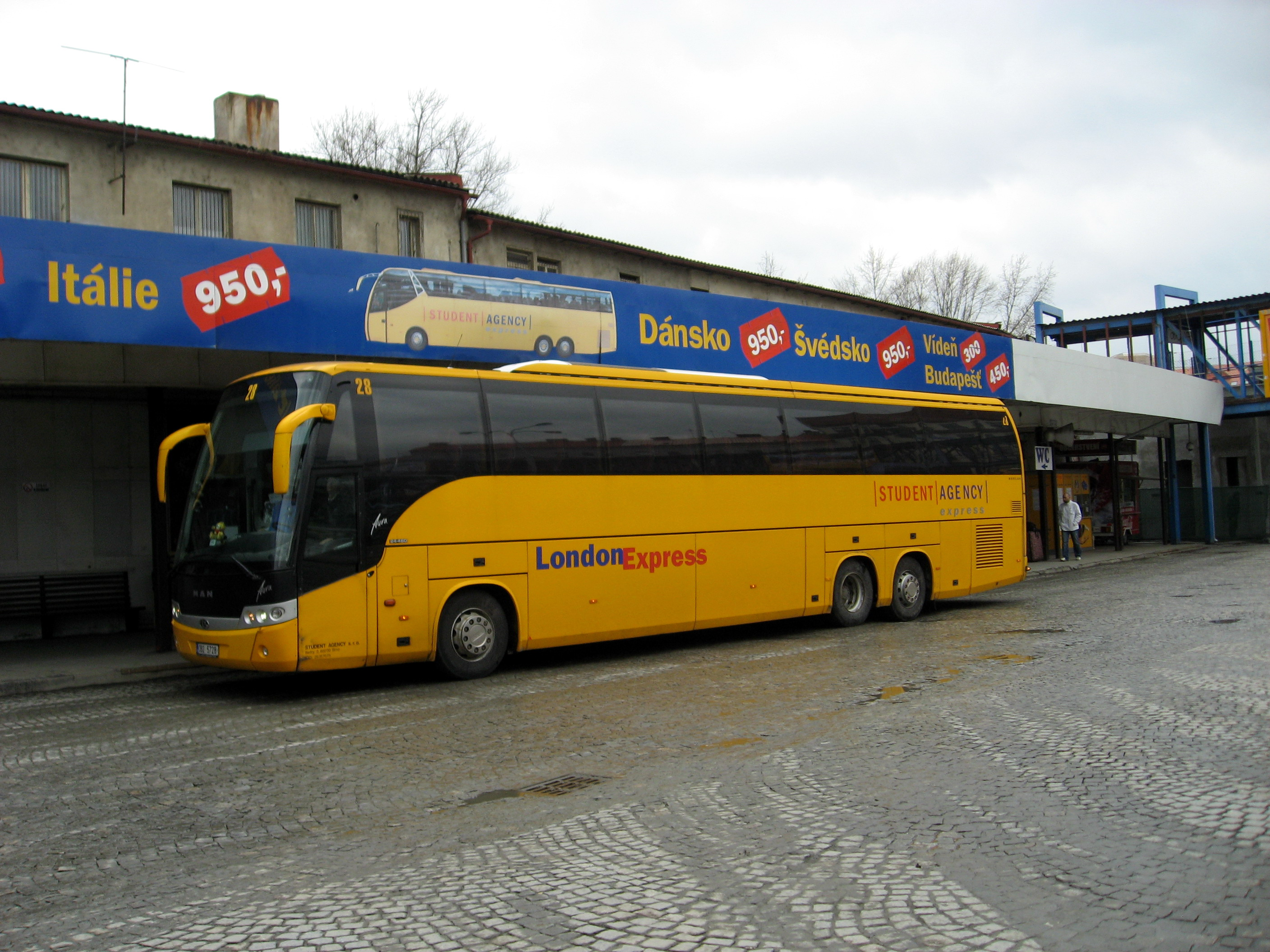 Beulas Aura coach (#28, reg. 3B2 5728) with MAN 24.400 or 24.460 chassis in Prague, Czech Republic. Built 2005, Student Agency from Brno operator.